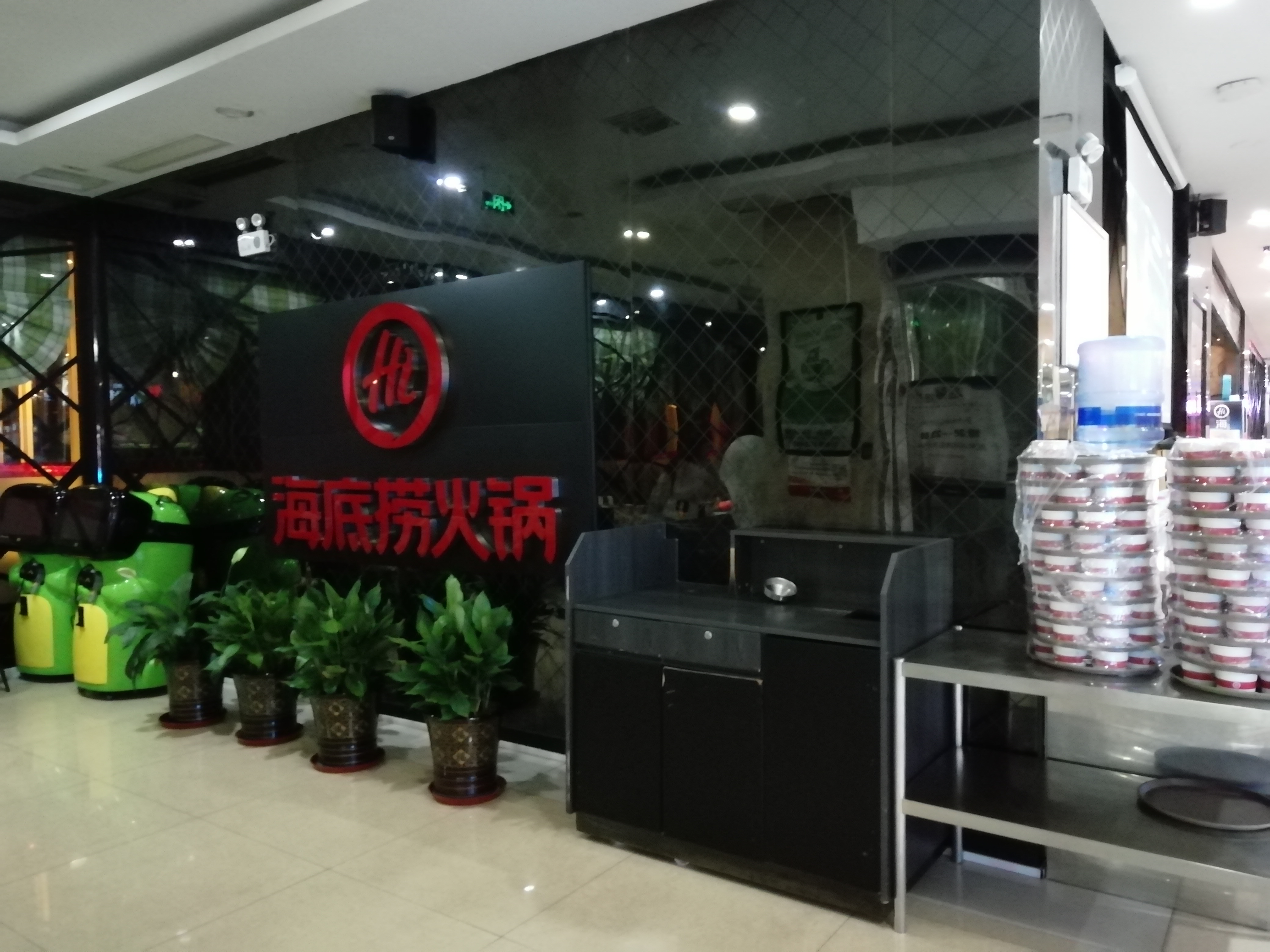 A Haidilao Hot Pot Store in Suzhou 中文（中国大陆）: 海底捞火锅位于苏州的门店